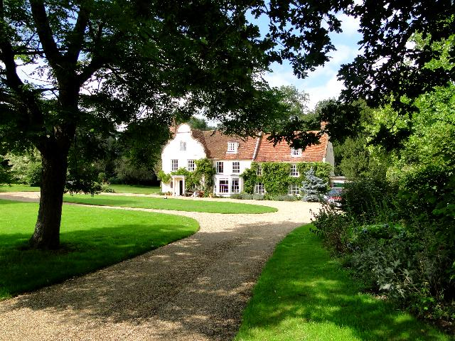 The Rectory at Barsham